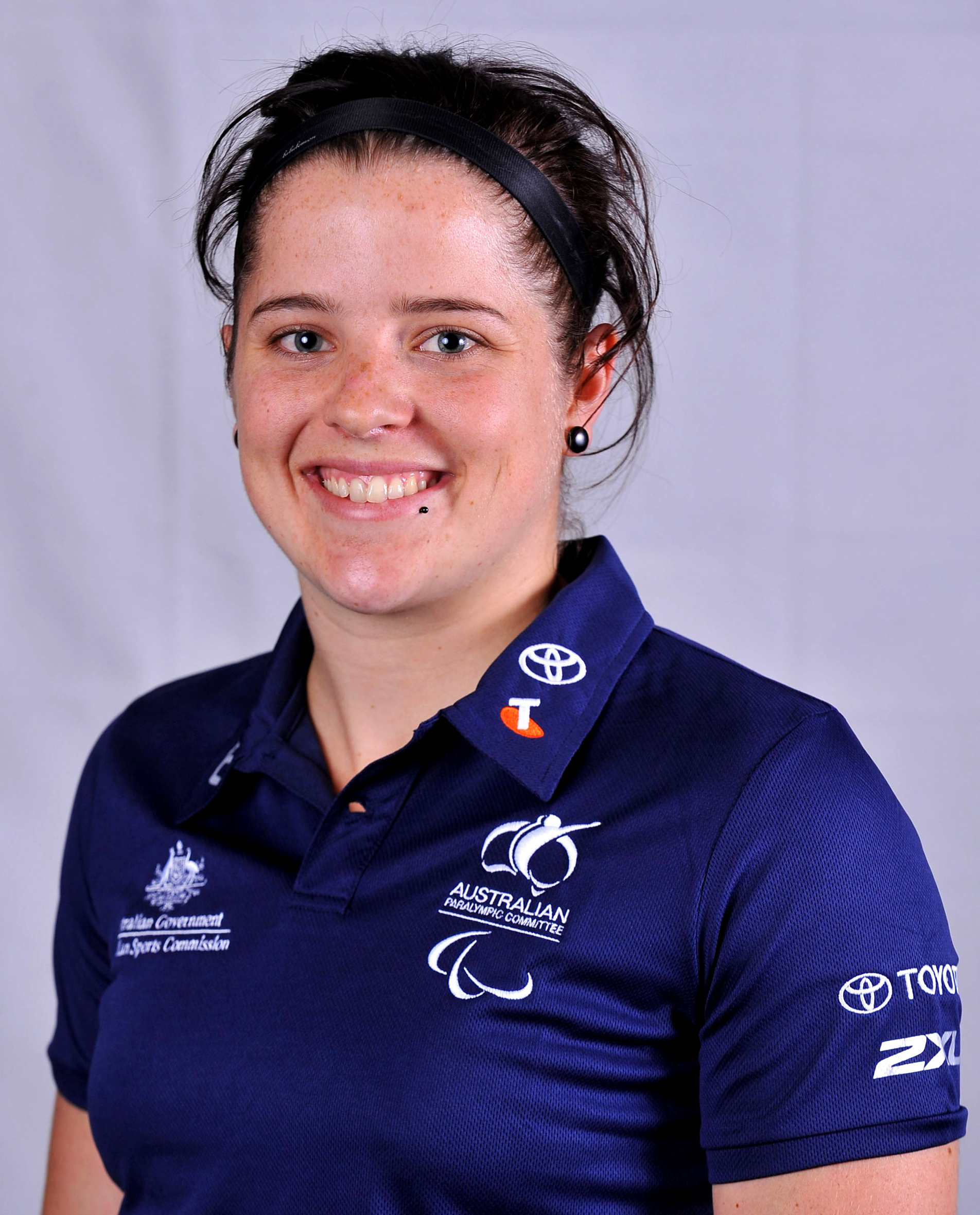 Portrait of Australian wheelchair basketballer Cobi Crispin, 2012 Australian Paralympic (shadow) Team athlete